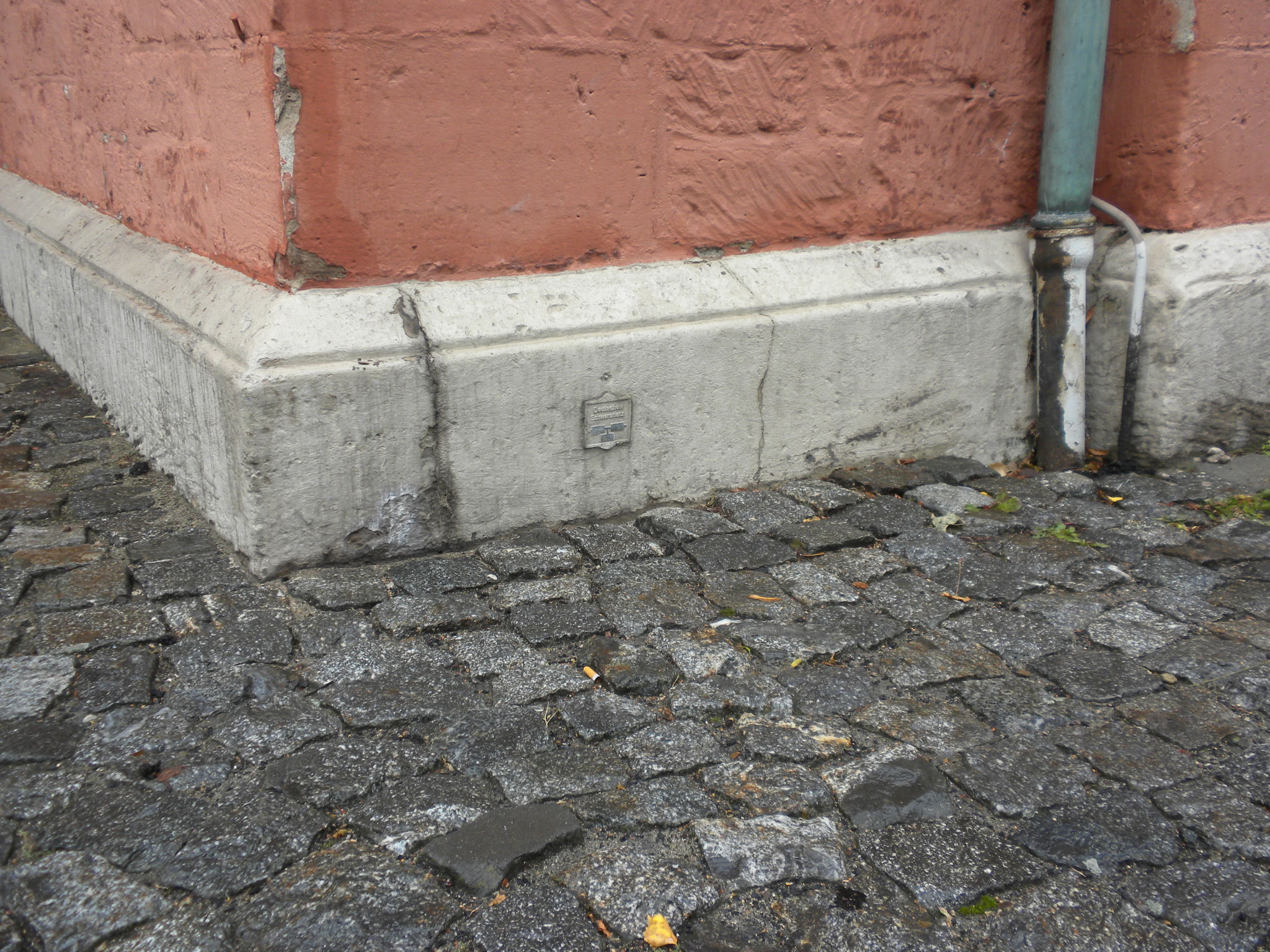 Identification badge of the German Gravity Network 1962 at plinth of the baroque church St. Trinitatis in Wolfenbüttel.